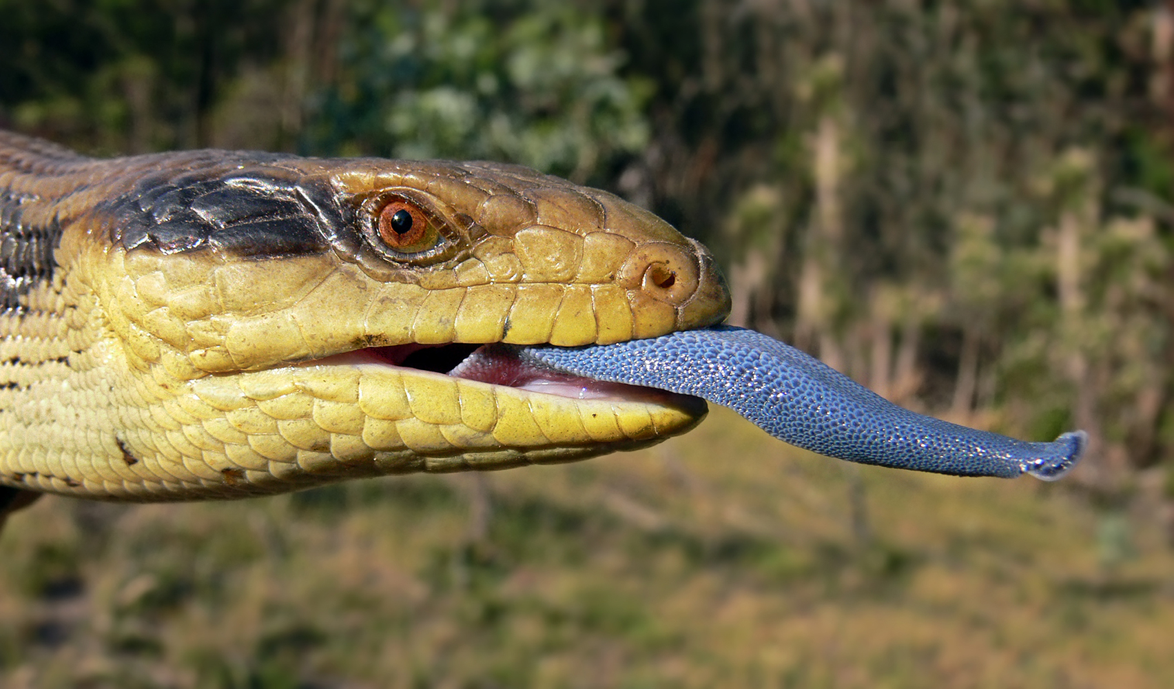 Common Blue-tongued Skink displaying it's tongue. Common Blue-tongued Skink Tiliqua s. scincoides.